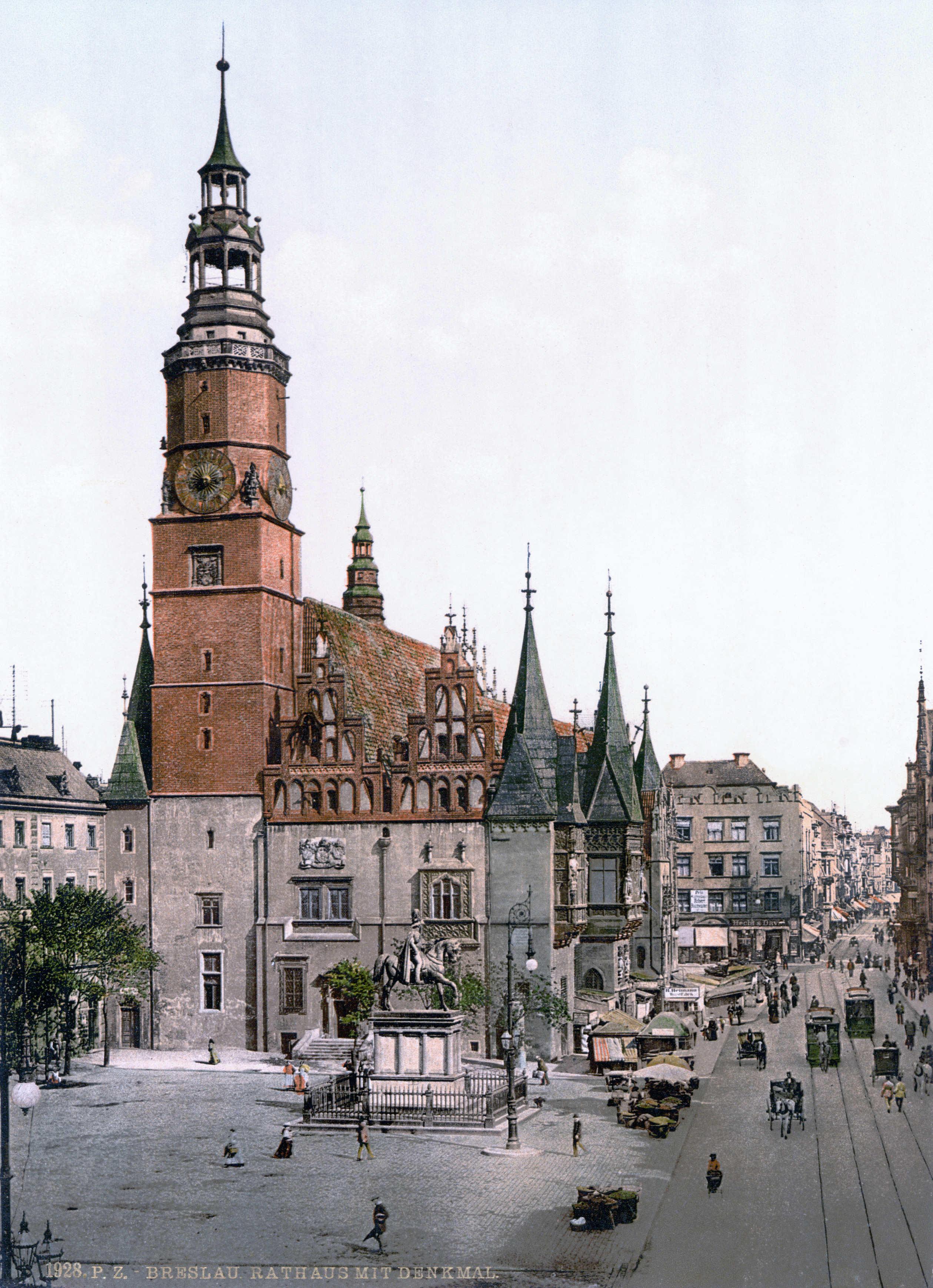 City hall of Breslau, Germany (now: Wrocław, Poland) between ca. 1890 and ca. 1900. View from the east.